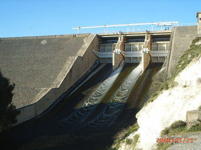 The Rastan Dam, a major dam on the Orontes River